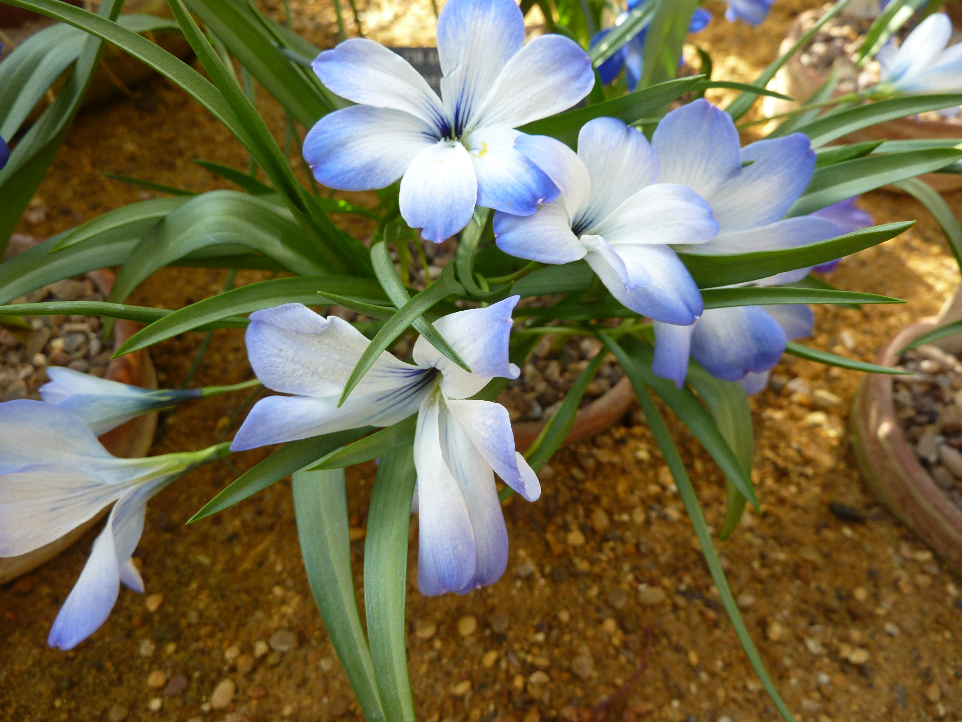 Taken in the Cambridge University Botanic Garden.